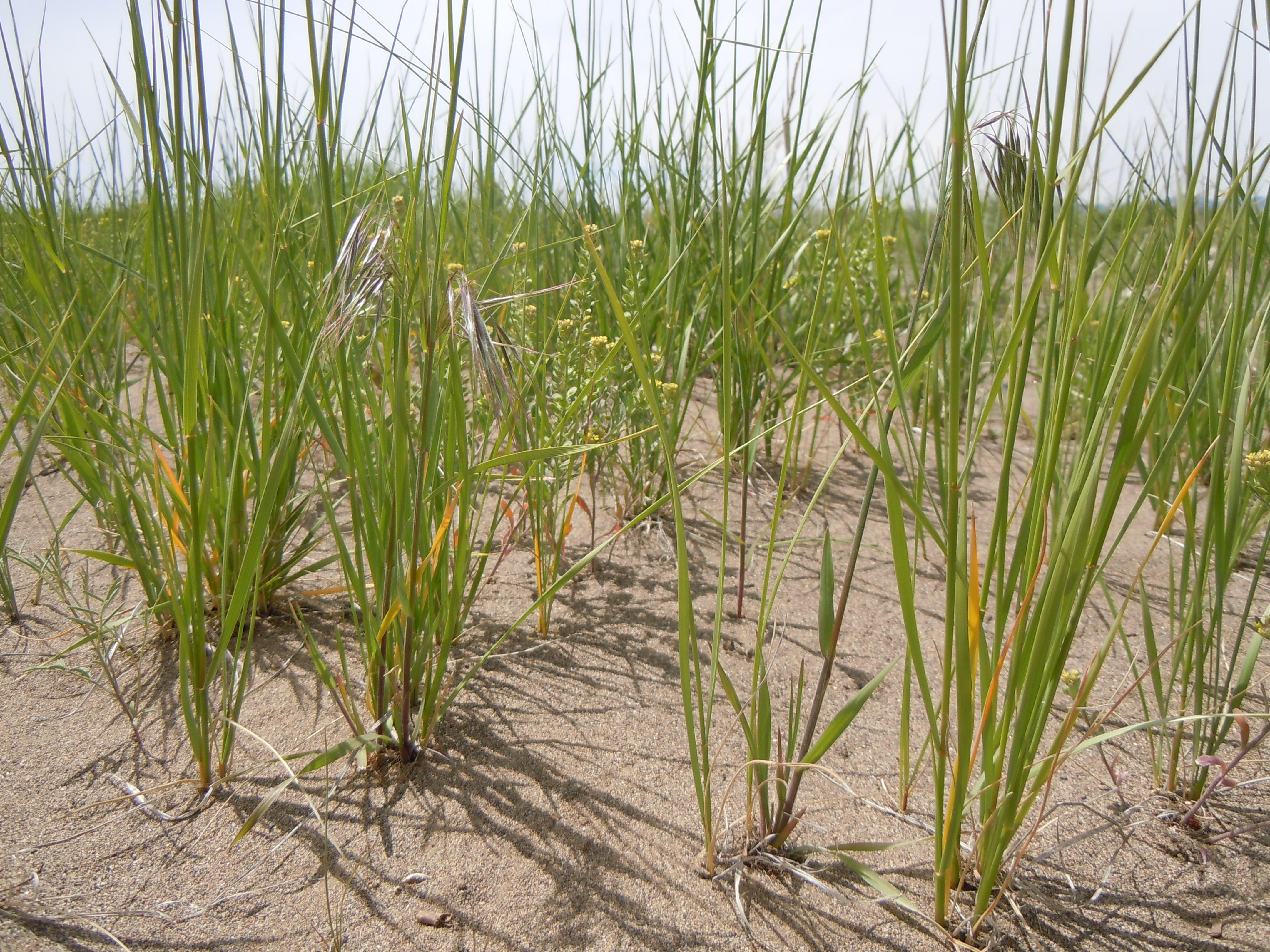 Bromus tectorum does not enjoy a postfire colonization advantage in the sagebrush steppe with infrequent pre-fire disturbance. The individual B. tectorum at center (its inflorescences droop to the left and right) is typical in this area in being in the minority (in this photo Agropyron dasystachyum is the abundant grass). Alyssum desertorum is the common annual mustard in this view.